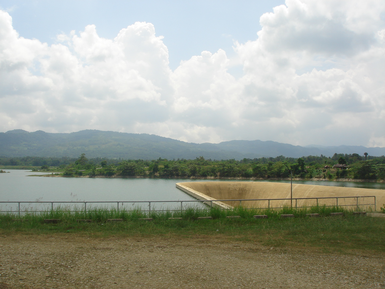 self-taken